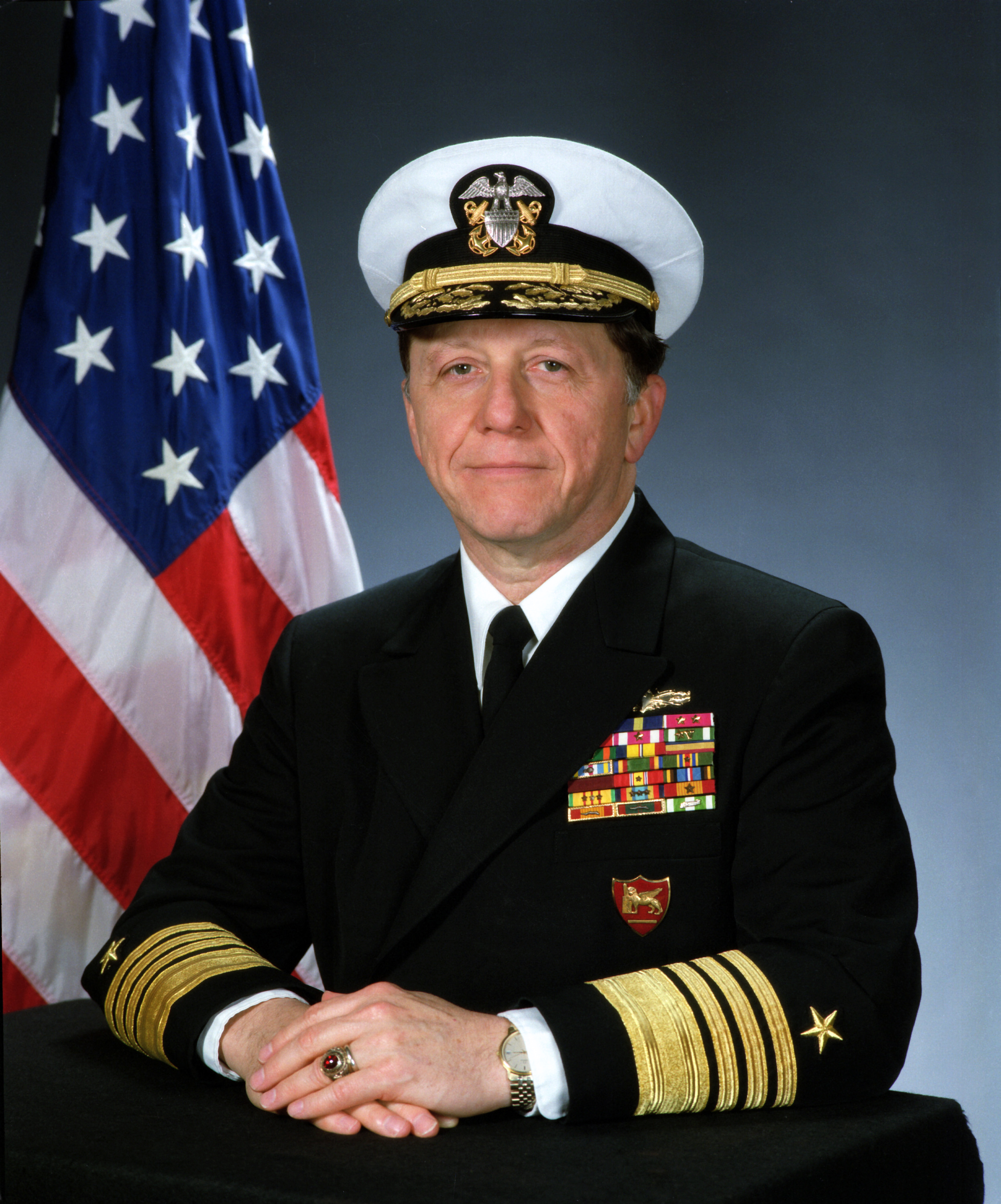 United States Navy official photograph of Admiral Thomas J. Lopez. U.S. government photo, ineligible for copyright